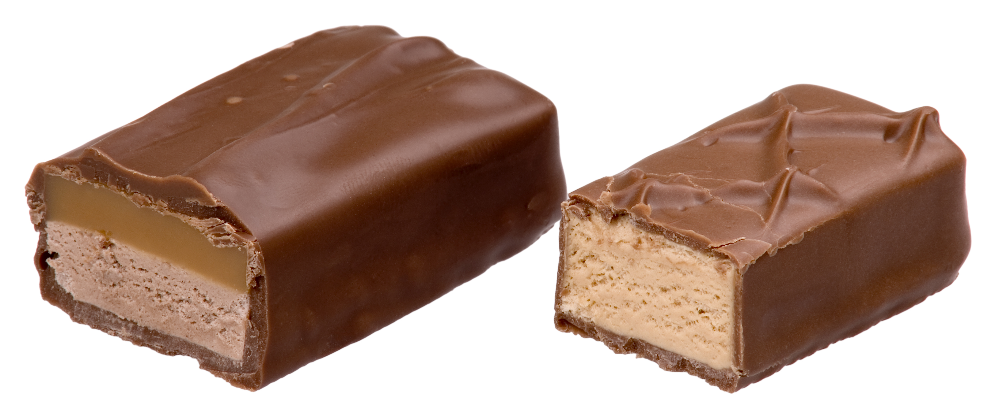 American (left) and British (right) Milky Way candy bars that have been split in half. Note the difference in size, color and patterning. The inside of the American is nougat and caramel, while the British is fluffy nougat. The American bars is similar to a British Mars bar, while the British are similar to American 3 Musketeers.